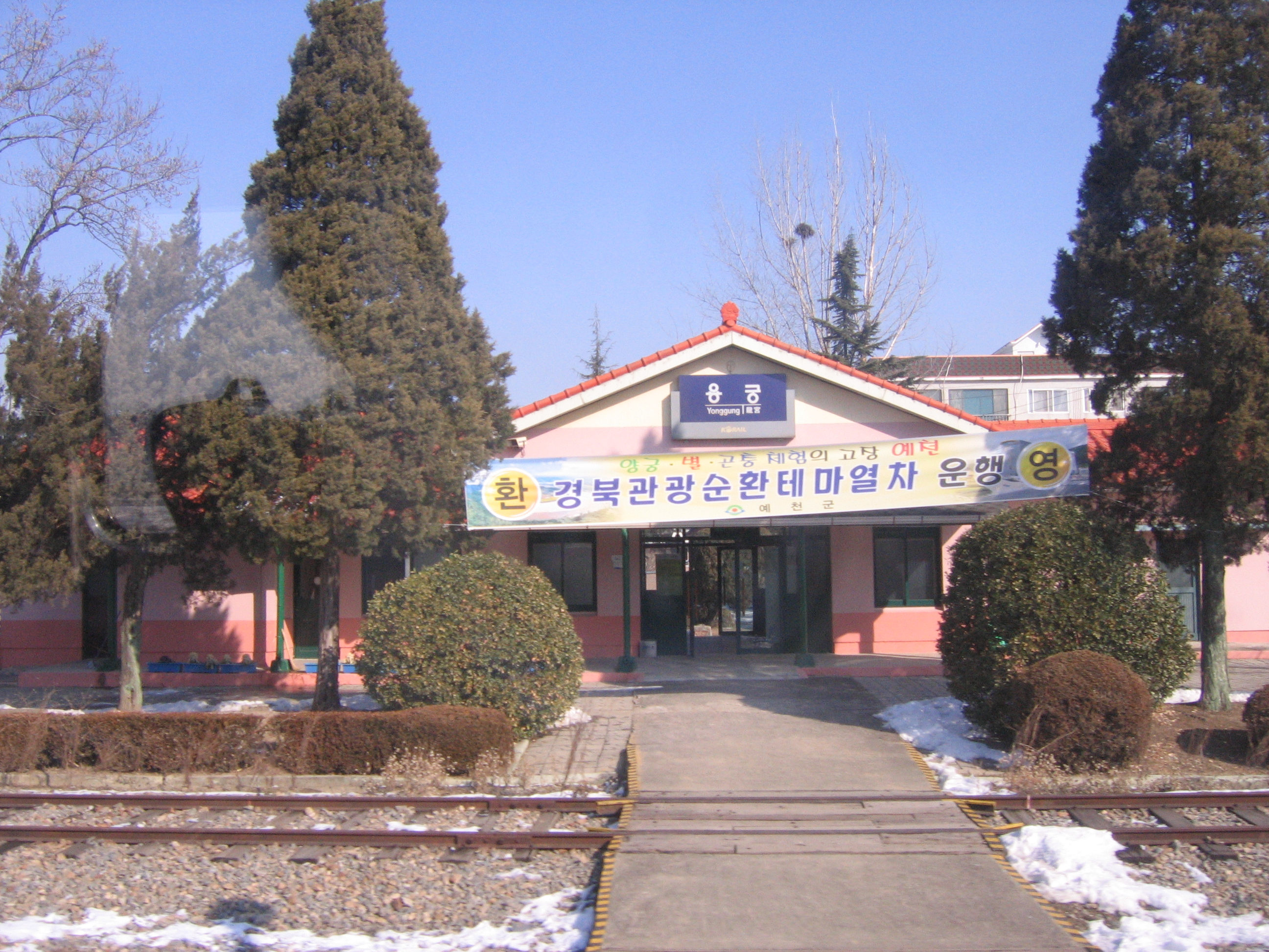 Korail Yonggung station building.